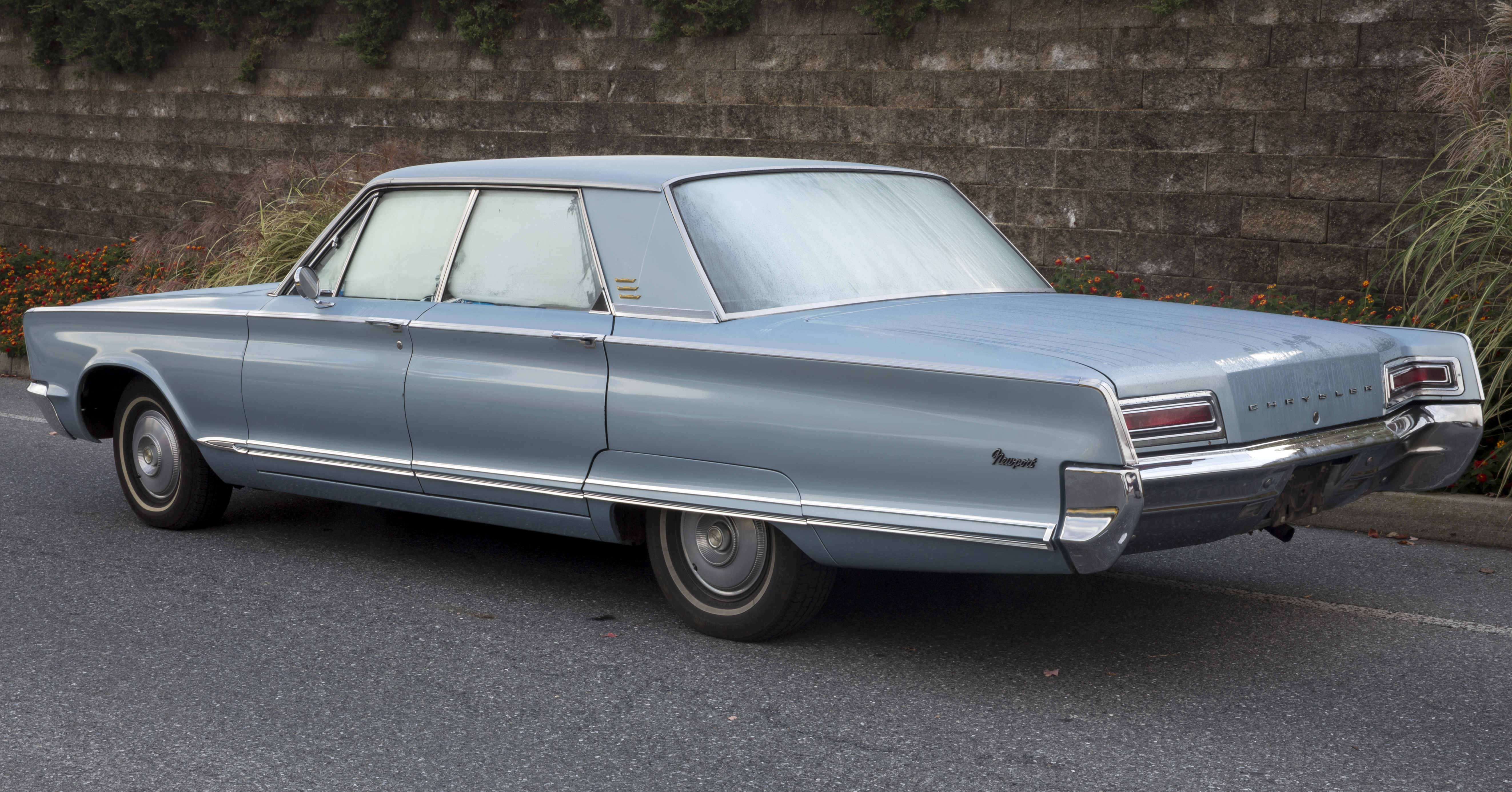 A 1966 Chrysler Newport 4-door Hardtop Sedan offered for sale at Hershey 2019. Two-barrel 270hp 383 V8 (VIN code "B", base engine for the Newport), built in Jefferson, MI.